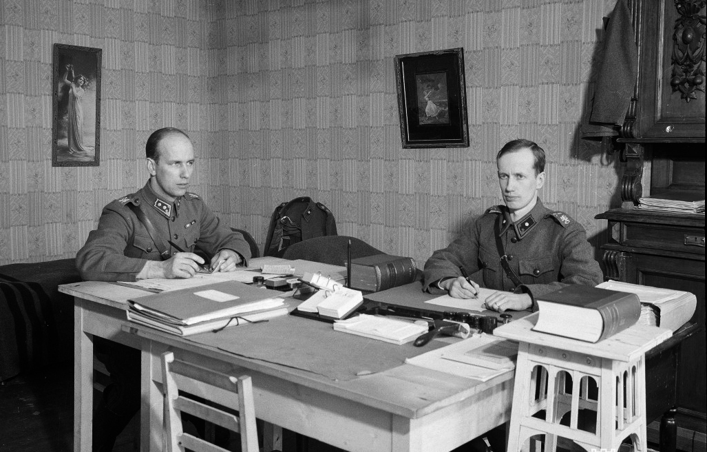 PM Intendentintoimisto. Yhteysupseeri, luutnantti Eino Nuutinen ja toimistosihteeri, vänrikki Olavi Rytkölä.